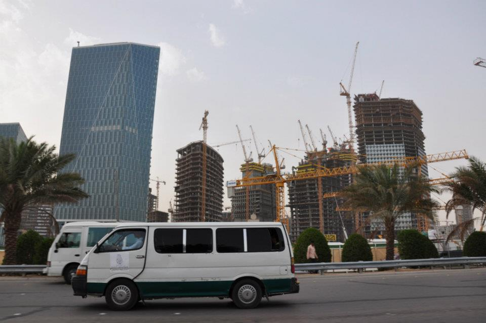 Financial Quarter Construction Site Riyadh Spring 2012